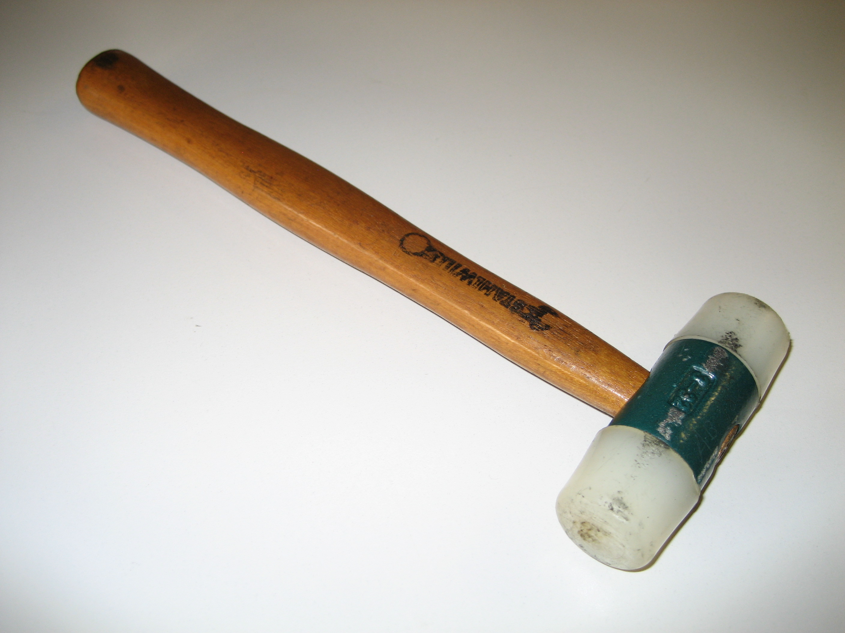 Plastic Hammer